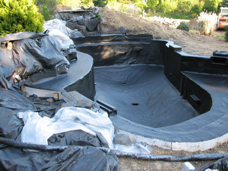 koi pond under construction